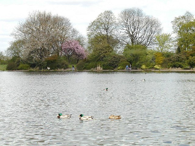 Alvaston Park, Derby.